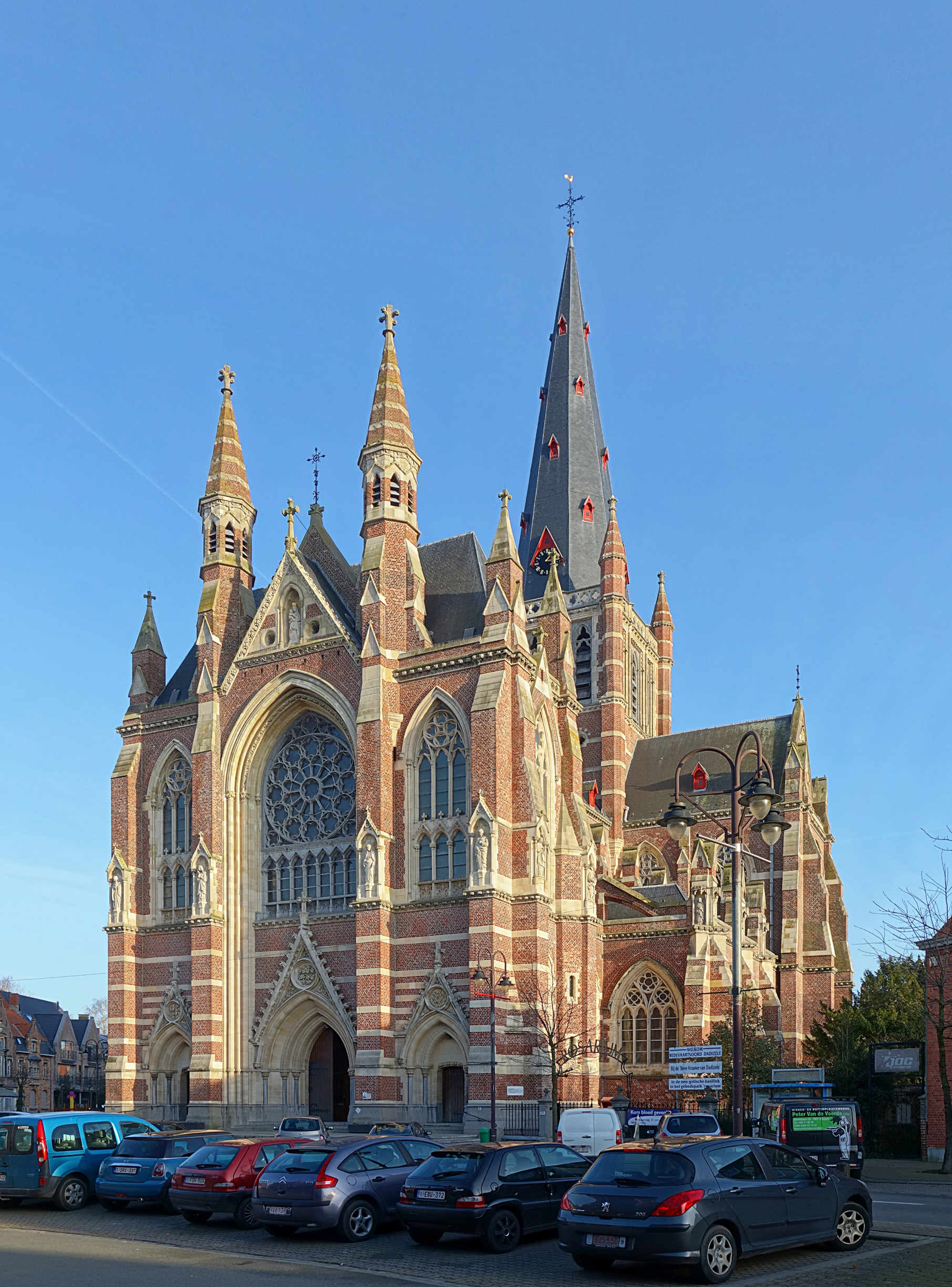 Notre-Dame Basilica in Dadizele, Belgium.